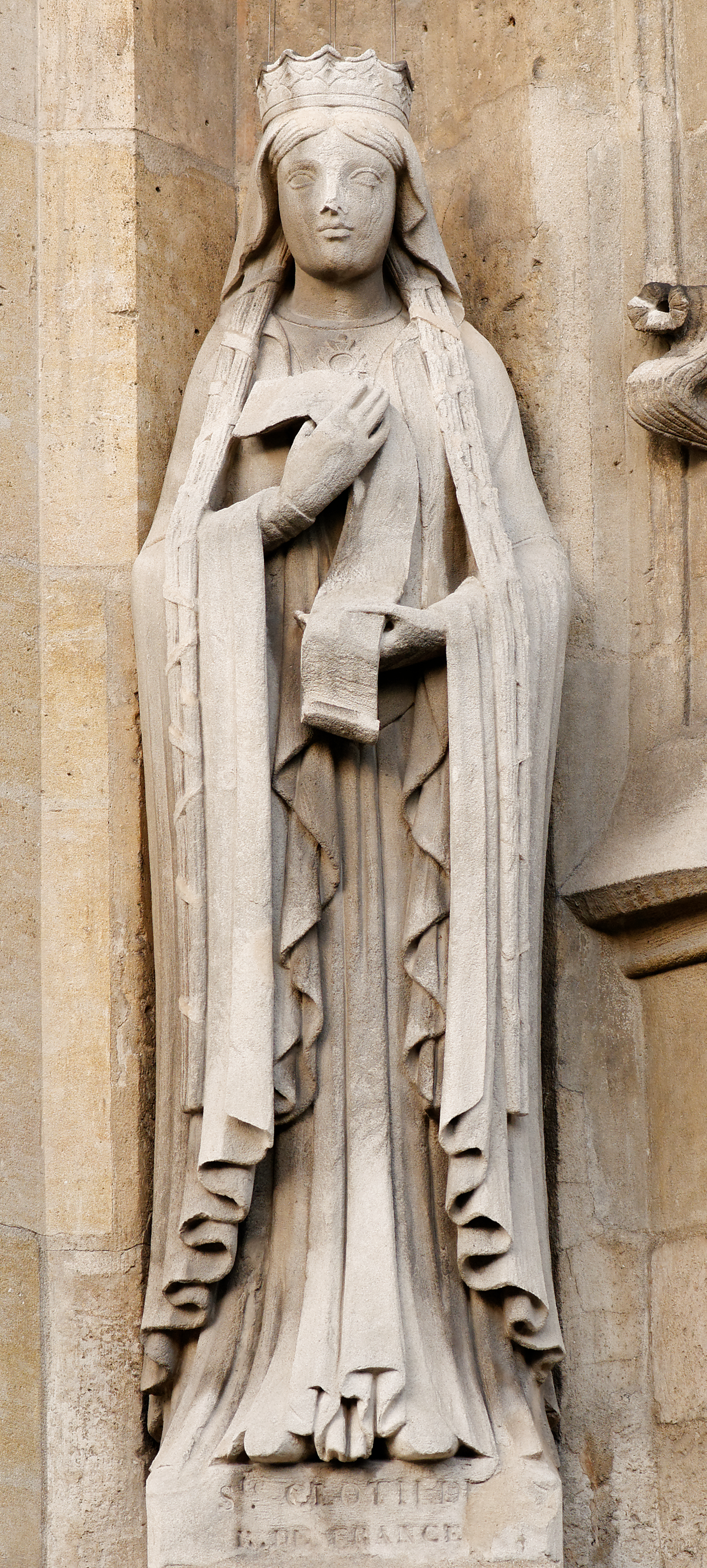 St. Clotilde, copy after the gothic original. Porch of Saint-Germain l'Auxerrois, Paris.